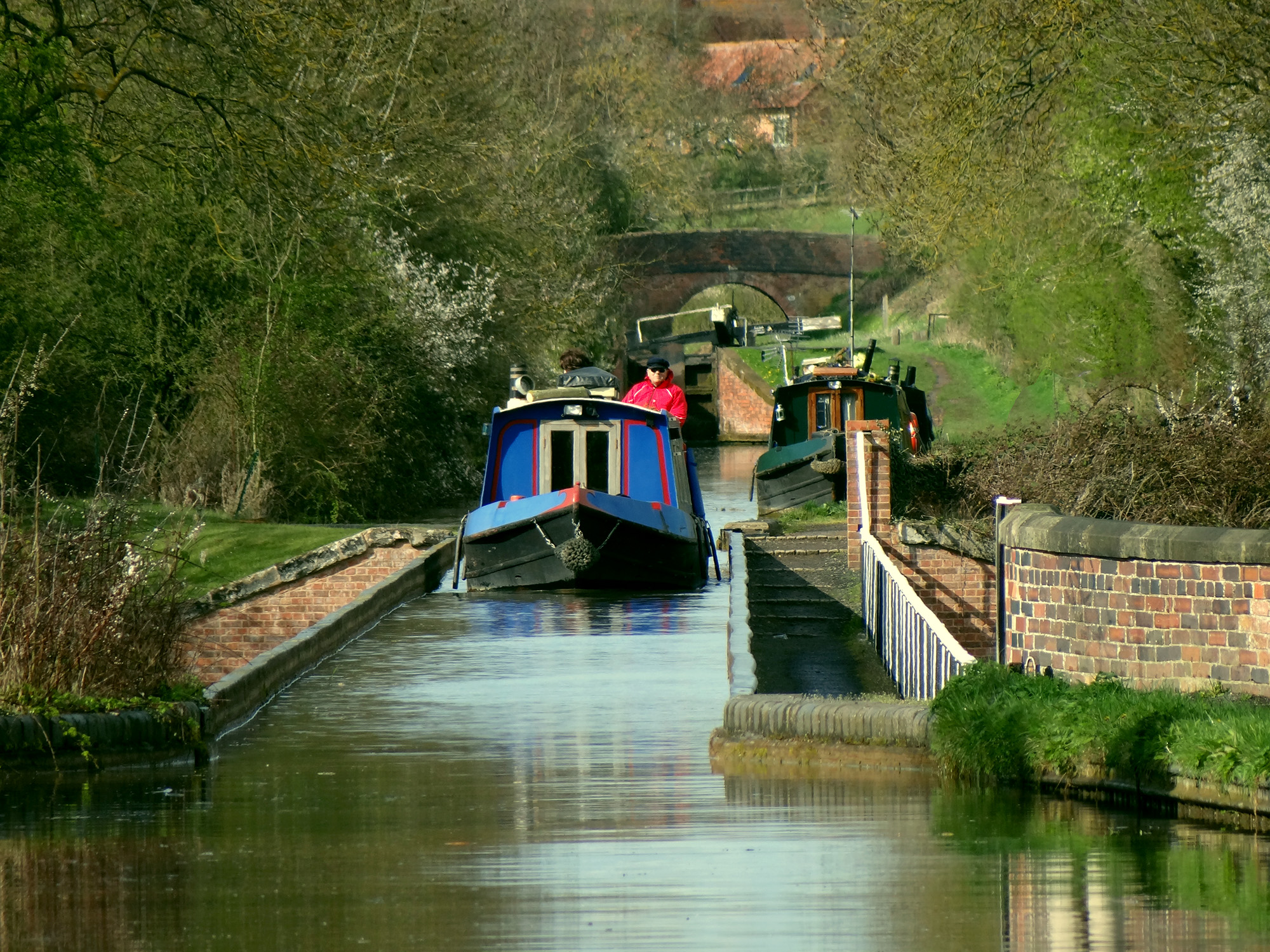 Edstone Aquaduct, Stratford-Upon-Avo Canal, Warwickshire